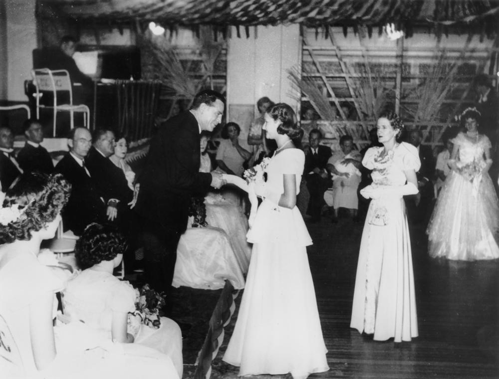 Debutantes at the Cloncurry Coronation Debutante Ball Debutante Merle Hartig being presented to the Shire Chairman Nobby Clark. Matron of Honour, Mrs Ede Lemmon makes the introduction (Description supplied with photograph.) Cloncurry started with the discovery of copper. It is situated in the west of Queensland at the junction roads from Townsville, the Gulf of Carpentaria, Longreach, Mount Isa and Winton. First Qantas flight landed in Cloncurry and John Flynn (Flynn of the Inland) established the Flying Doctor service here.